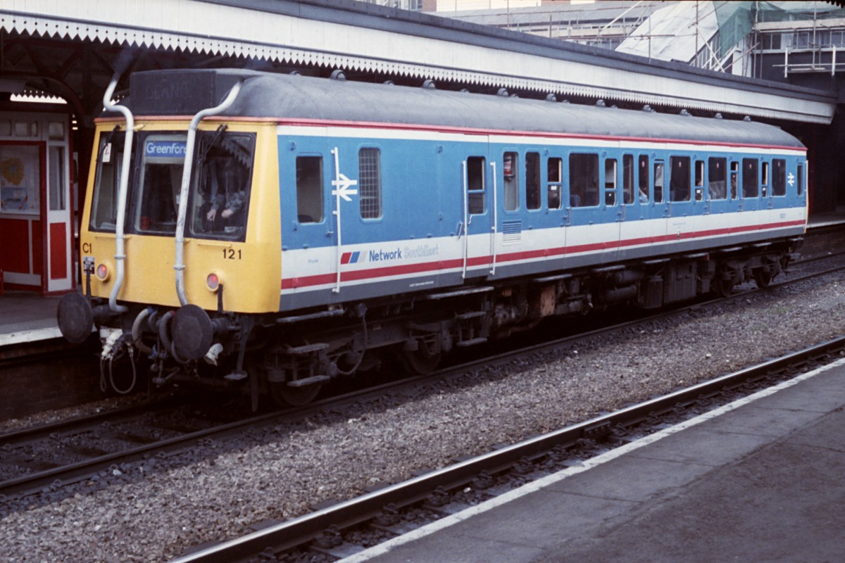 A Class 121 railbus in BR Network SouthEast livery at London Paddington station for the Greenford service.